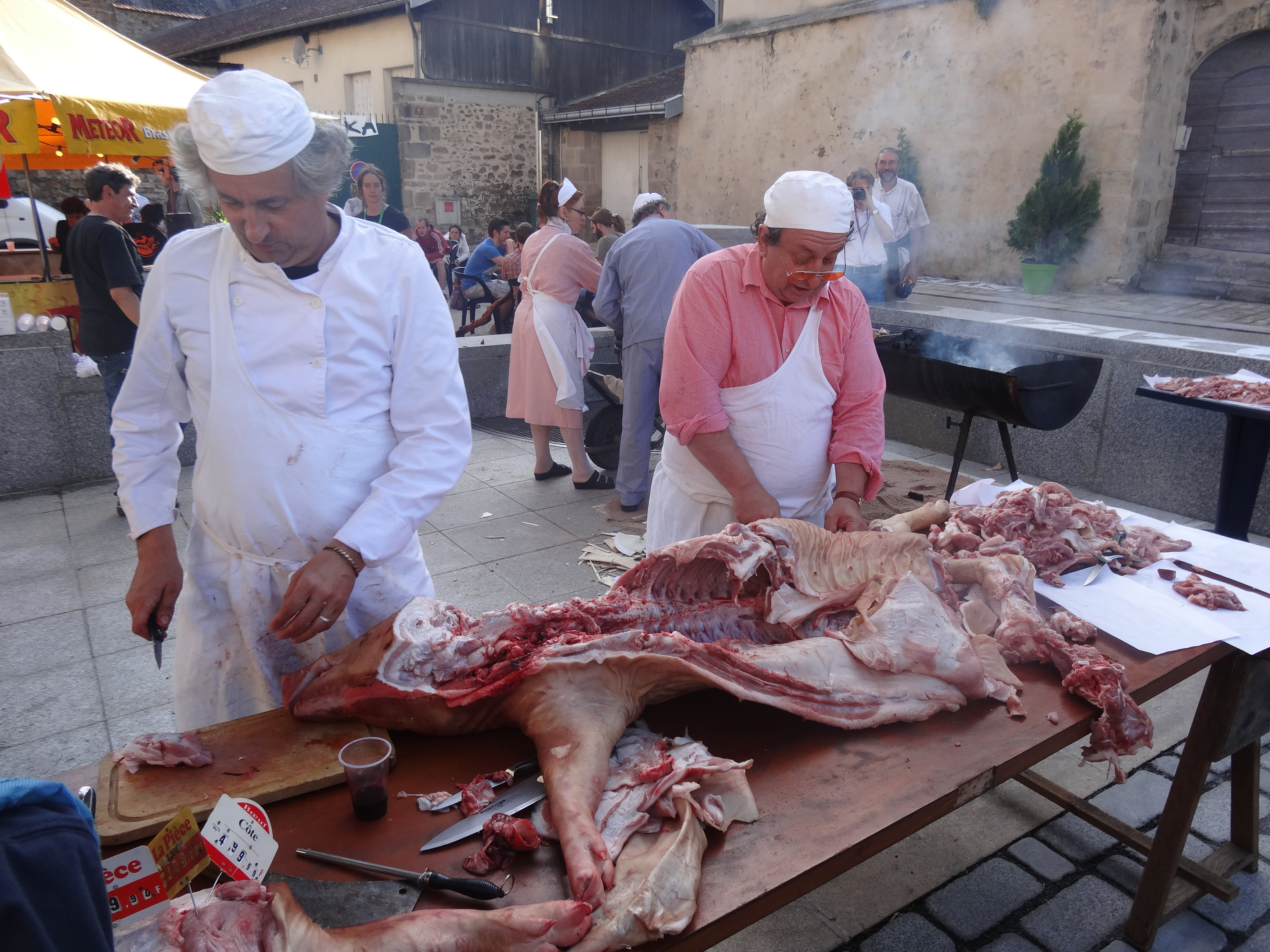 Festival in Limoges, in front on the cathedral. Butchers with a slaughtered pig